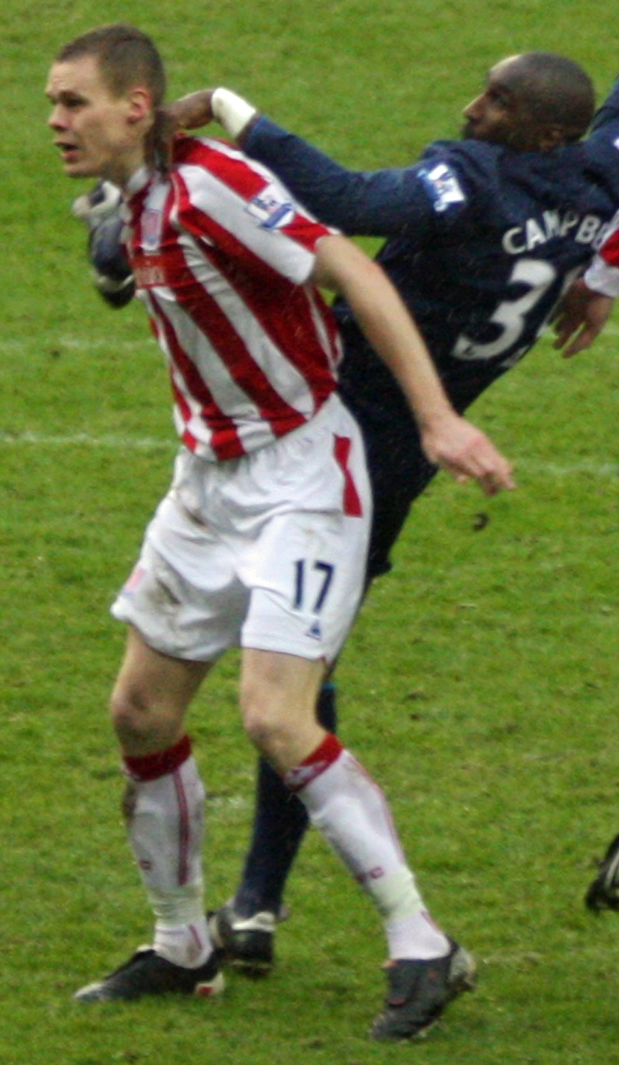 Ryan Shawcross of Stoke City, January 2010.